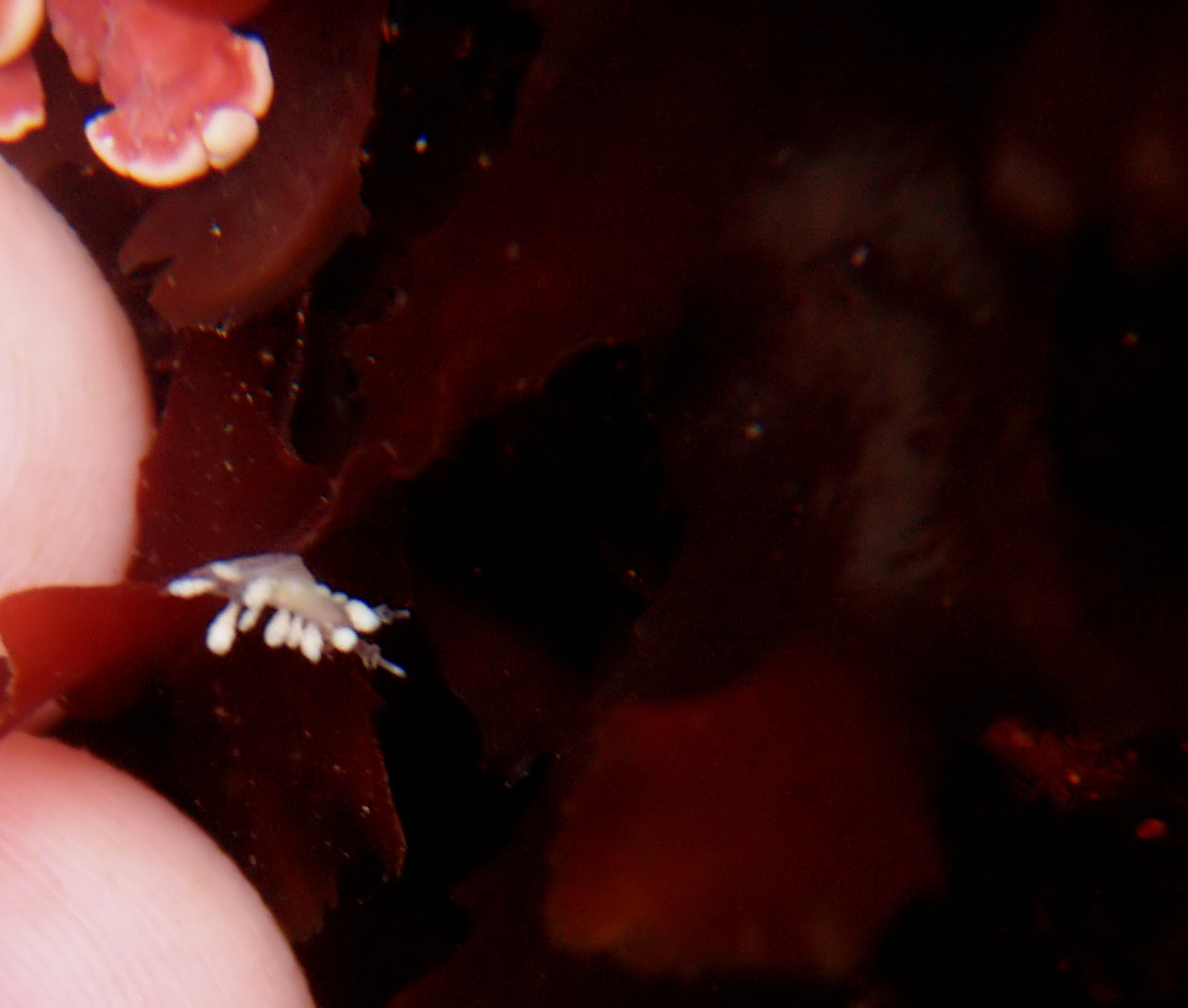 Nudibranch, Doto amyra in Tide Pools.